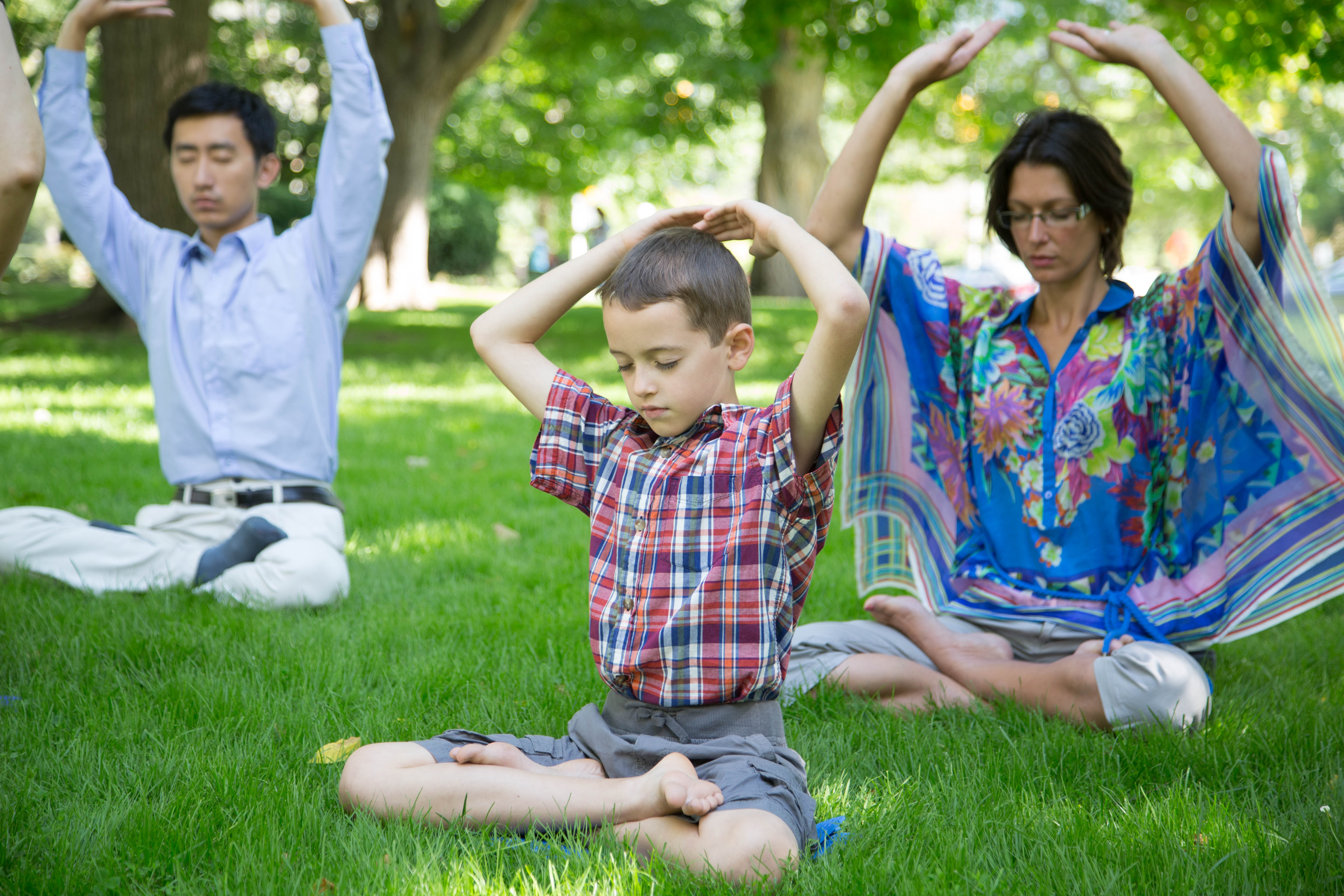 Practitioners of Falun Gong (also called Falun Dafa) perform the hand gestures (called "mudras" in Buddhism) of the fifth exercise (a sitting meditation) of Falun Gong.